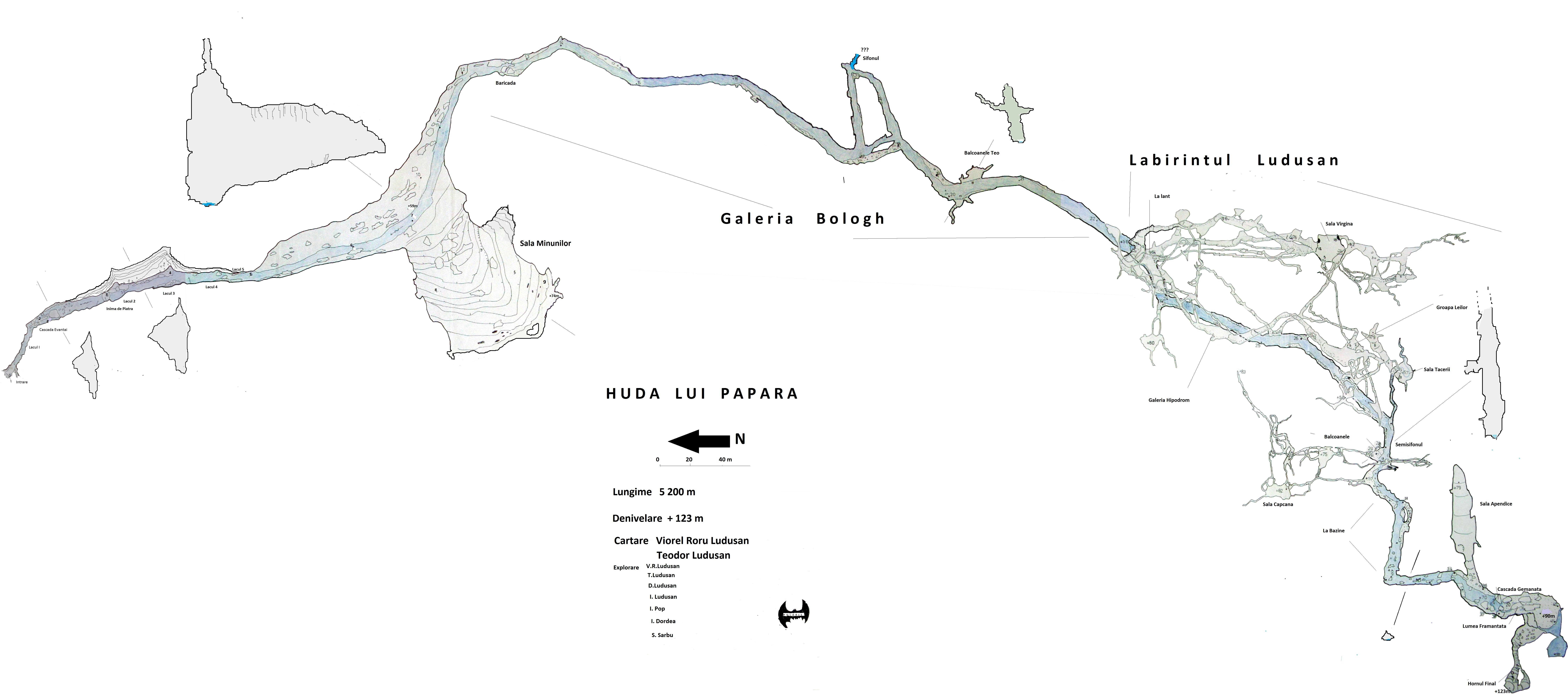 Huda lui Papara cave map